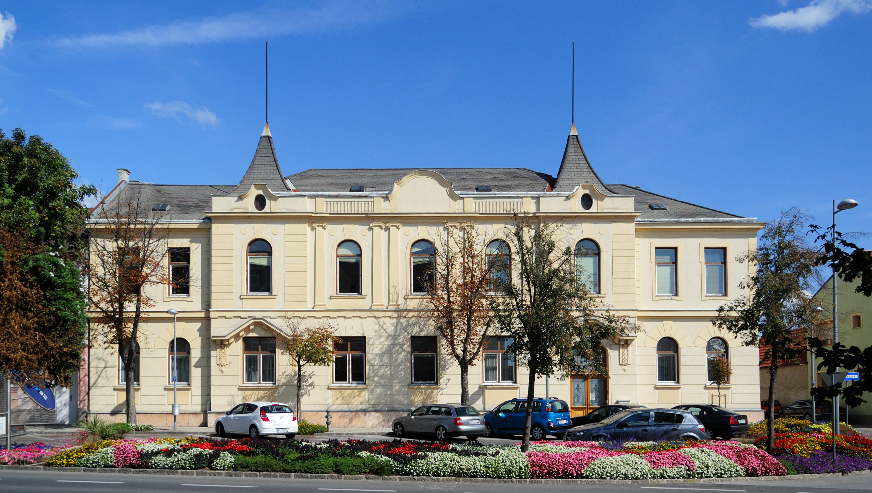 District court in Neusiedl am See, Burgenland, Austria